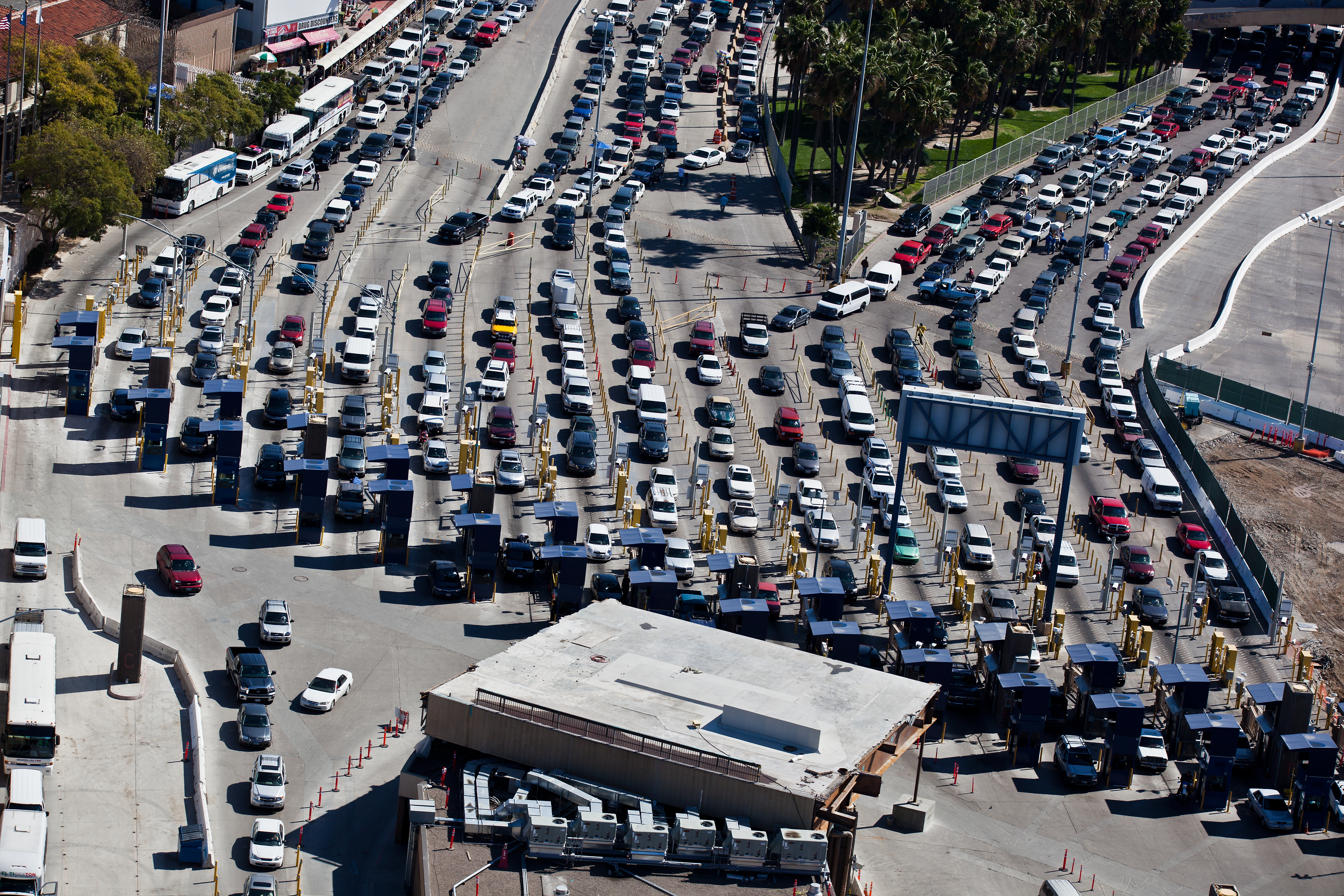 Border Traffic at the San Ysidro Primary Port of Entry. Photographer: Josh Denmark